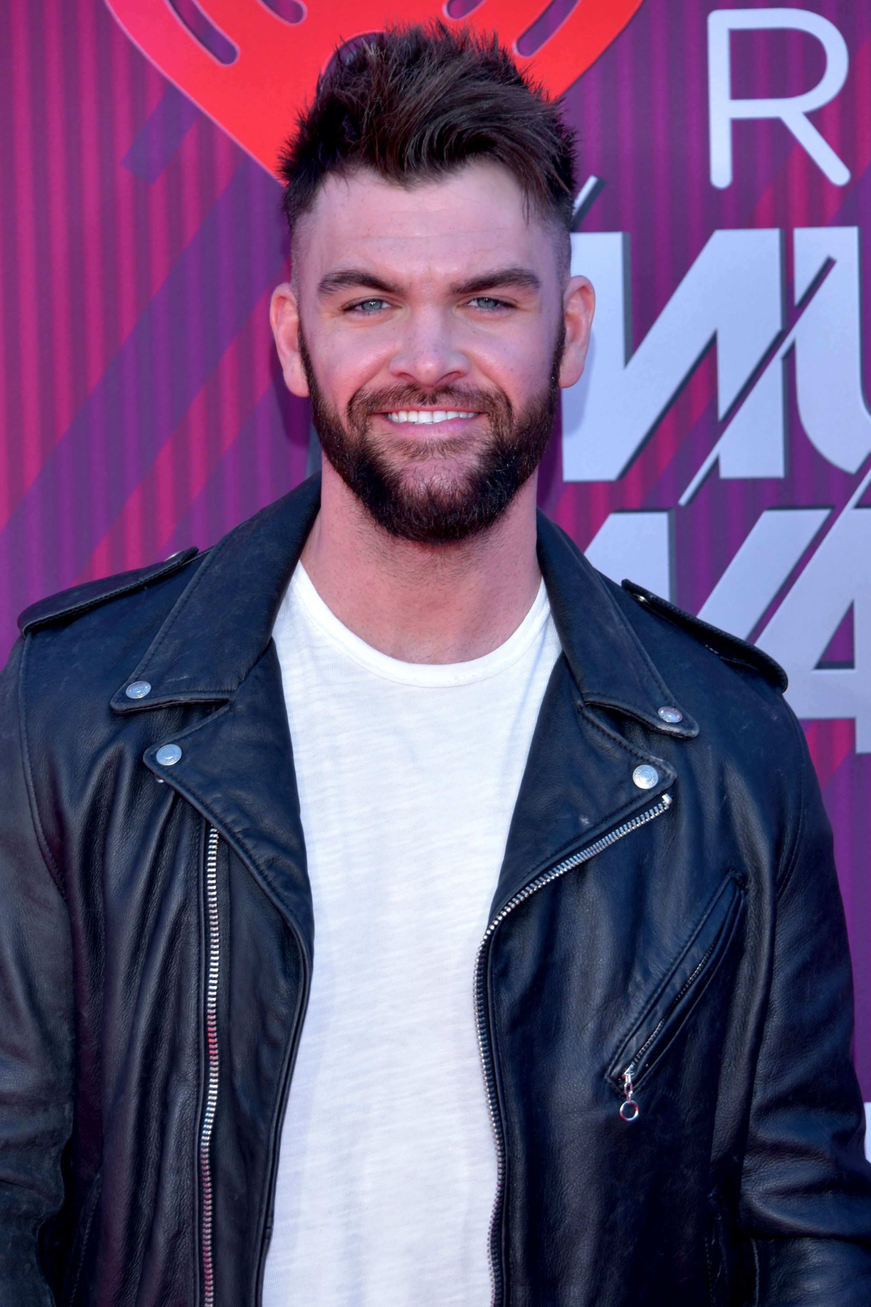 Dylan Scott at the 2019 iHeart Music Awards in Los Angeles California on March 14, 2019 - Photo by Glenn Francis of